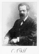 Dr. Carl Rabl (* 2nd May 1853 in Wels, Austria; † 24th December 1917 in Leipzig)